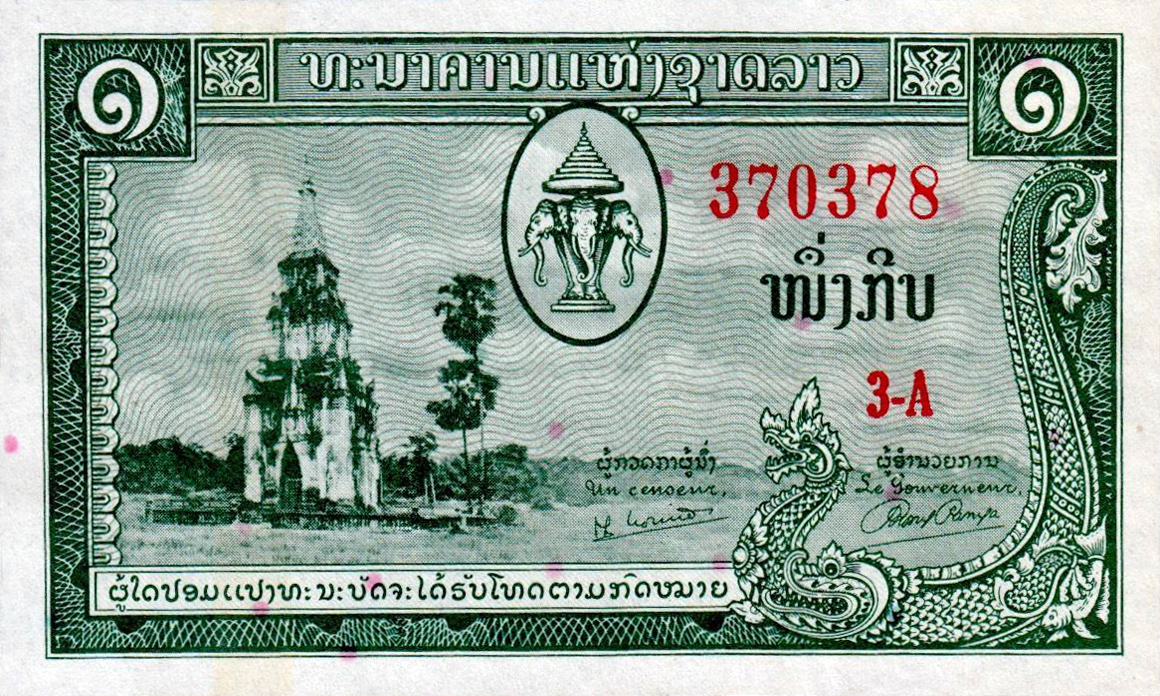 1 kip of Laos (1957)